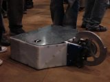 Adam II